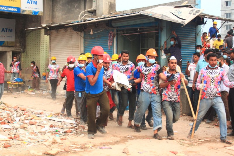 2013 Savar building collapse. Rescuers found yet another survivor. Photos taken by Sharat Chowdhury, permission obtained from him for use in Wikipedia under CC attribution.